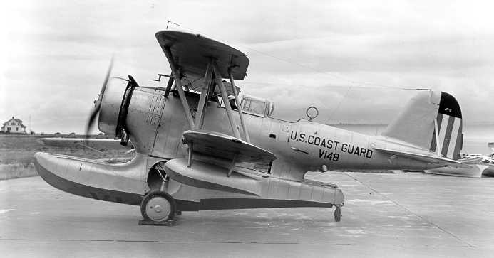 A U.S. Coast Guard Grumman JF-2 Duck (serial V148) in the mid to late 1930s.